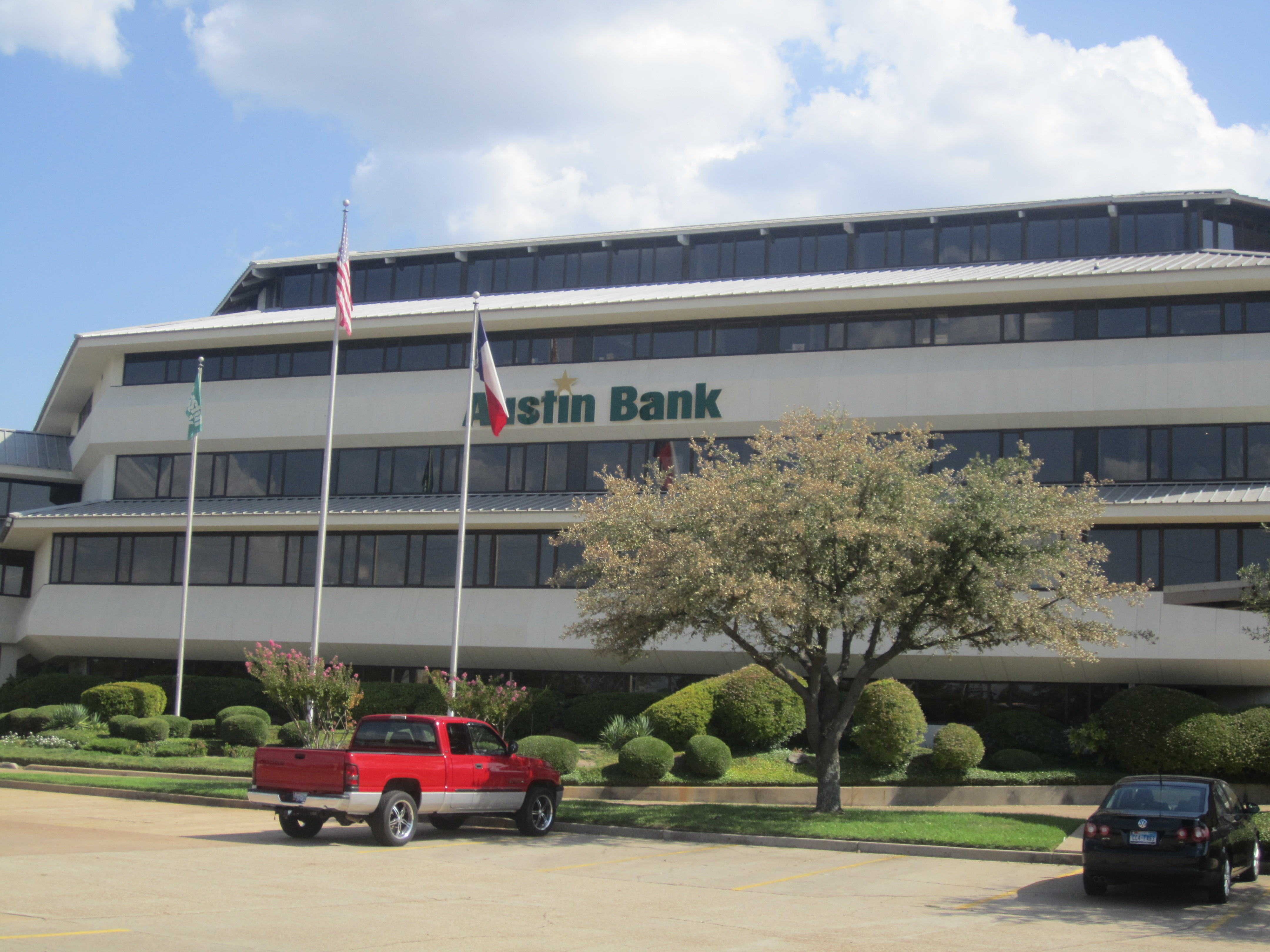 I took picture of Austin Bank in Longview, TX, using Canon camera.